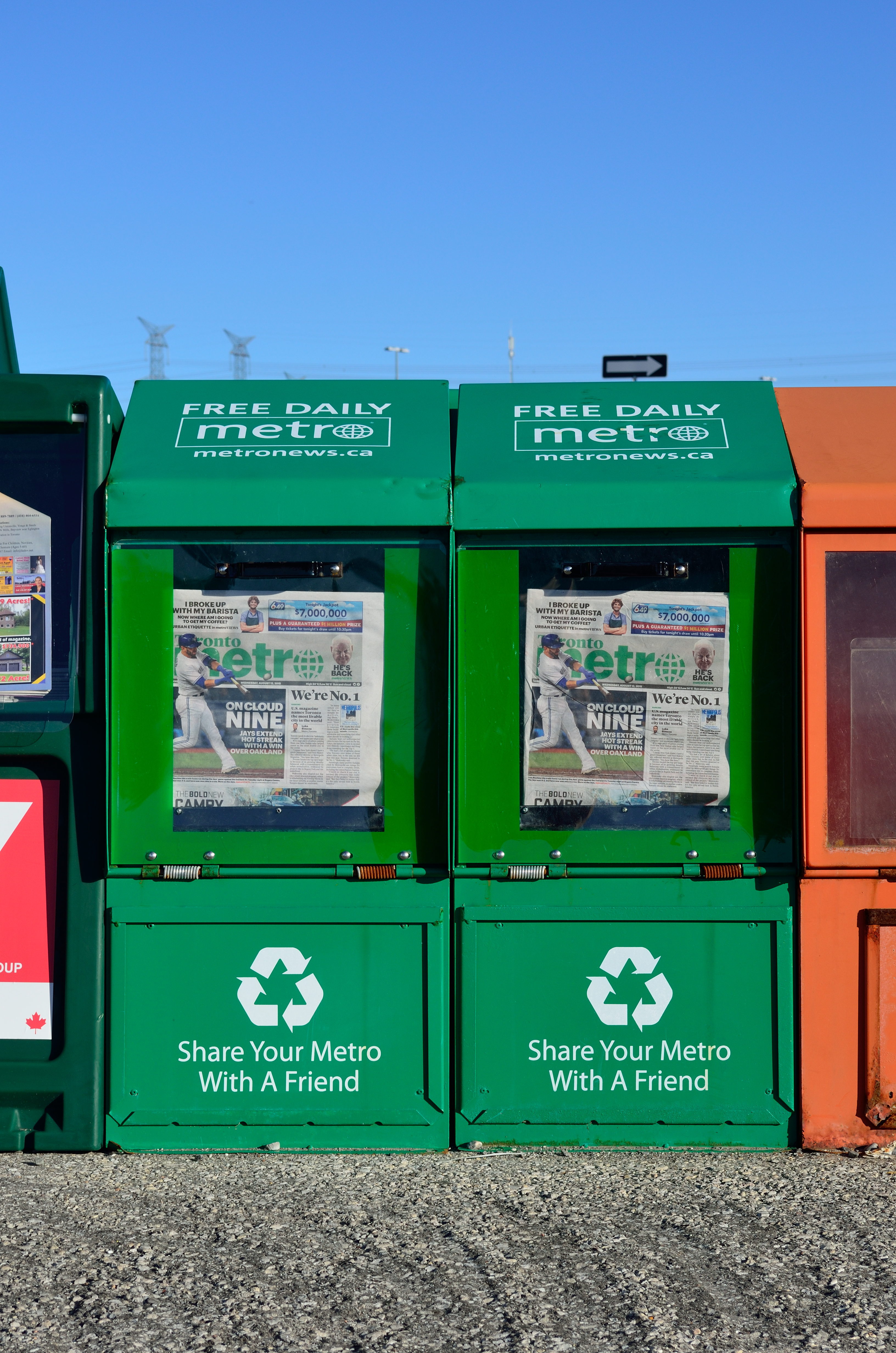 Metro newspaper vending boxes @ Unionville GO Station